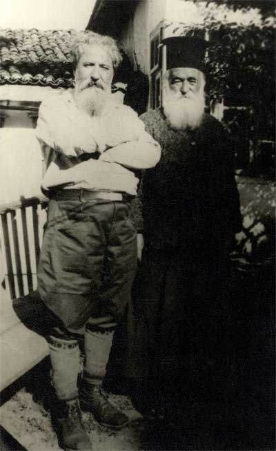 IMARO revolutionary/ies